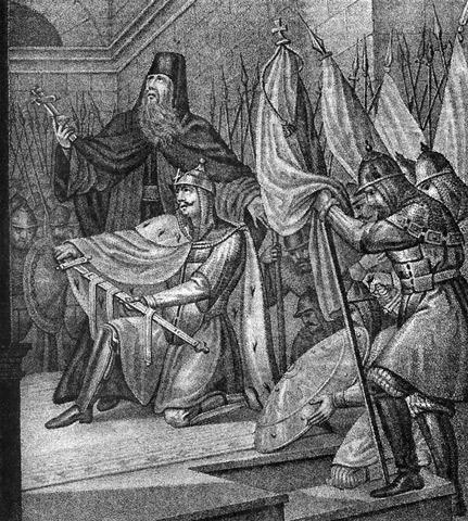 The Oath of Dovmont, the Grand Duke of Pskov